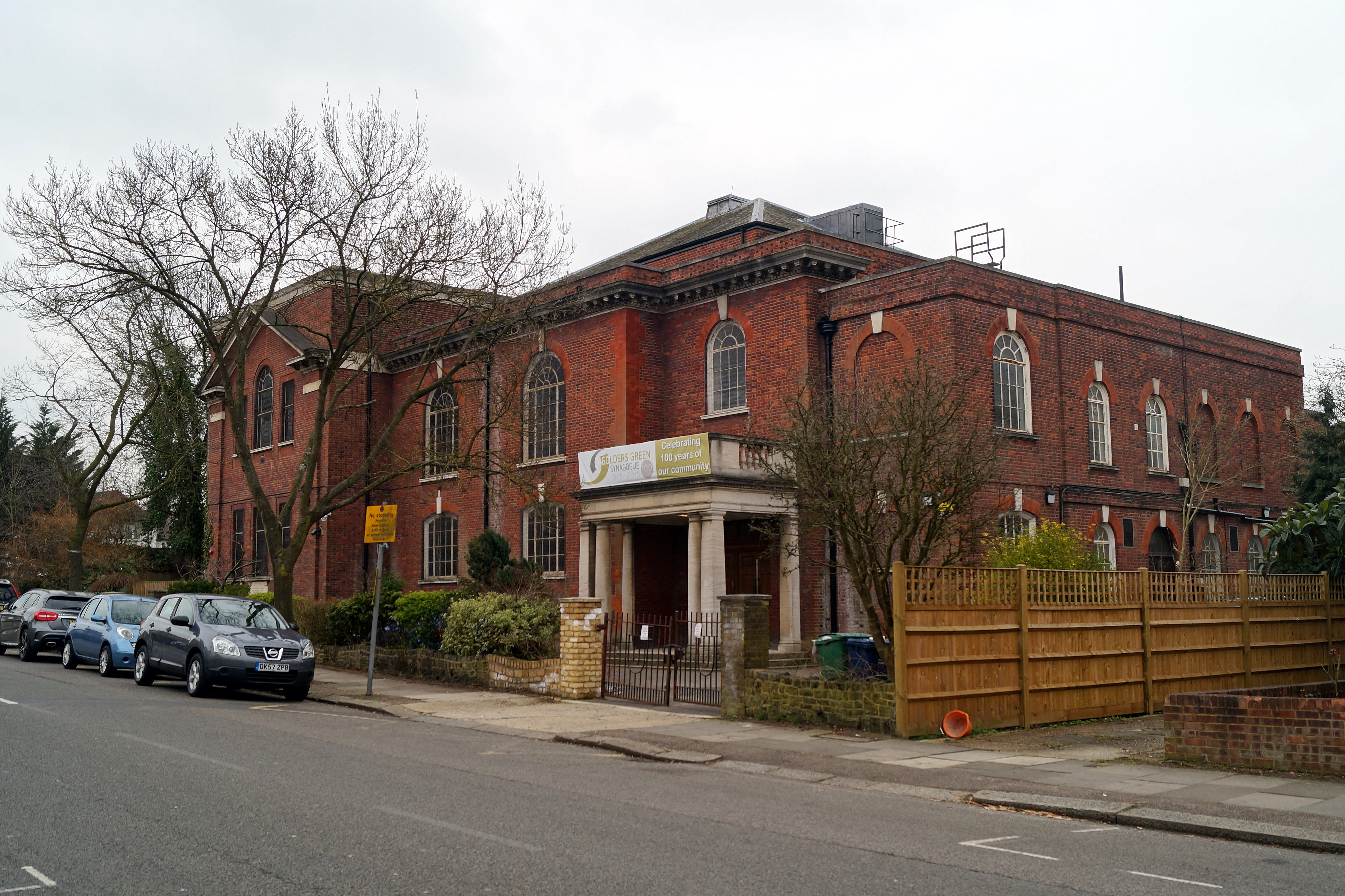 Golders Green Synagogue, 41 Dunstan Road, London NW11, seen from the northwest